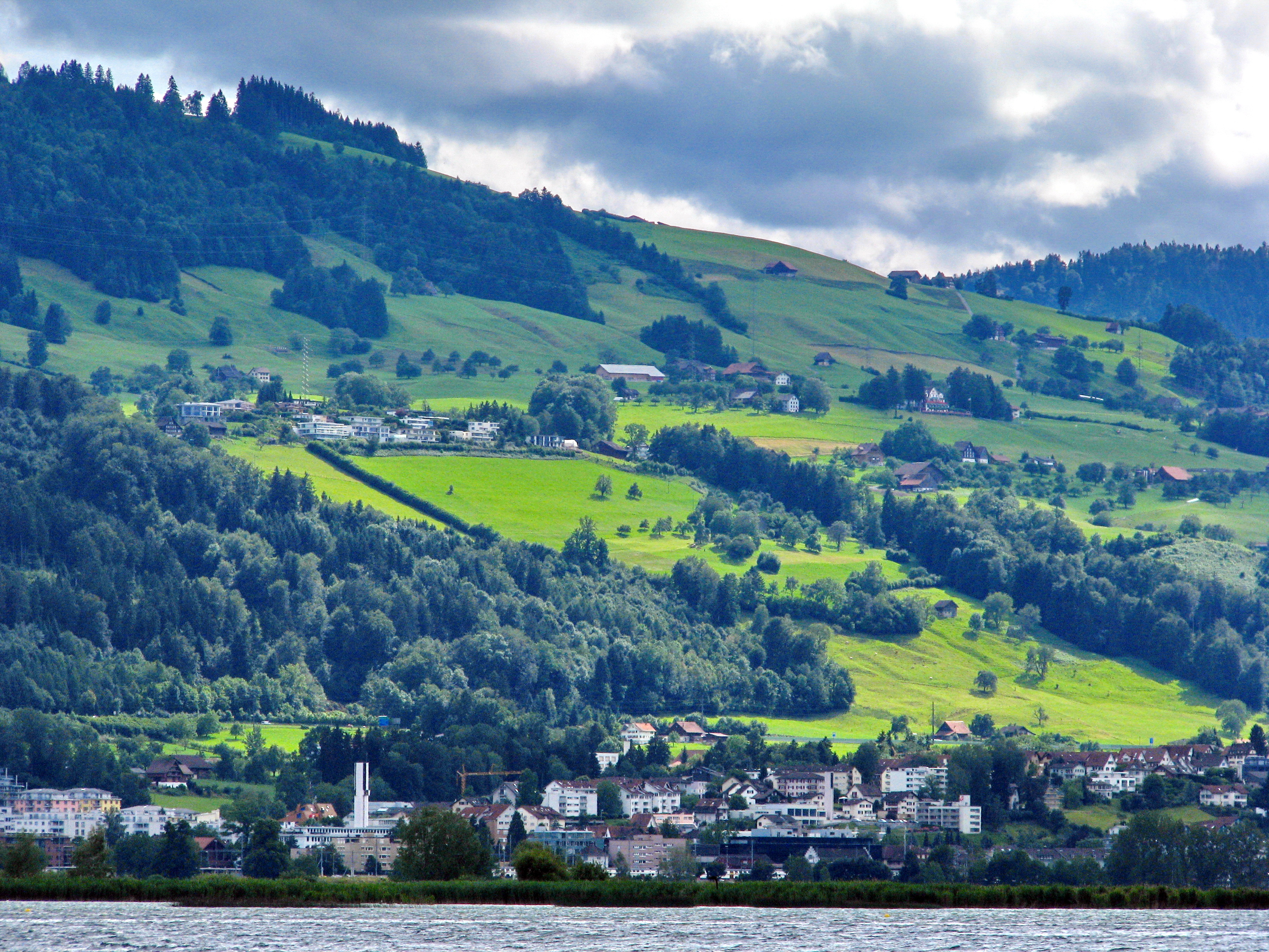 Freienbach (SZ) as seen from Zürichsee,in the background.